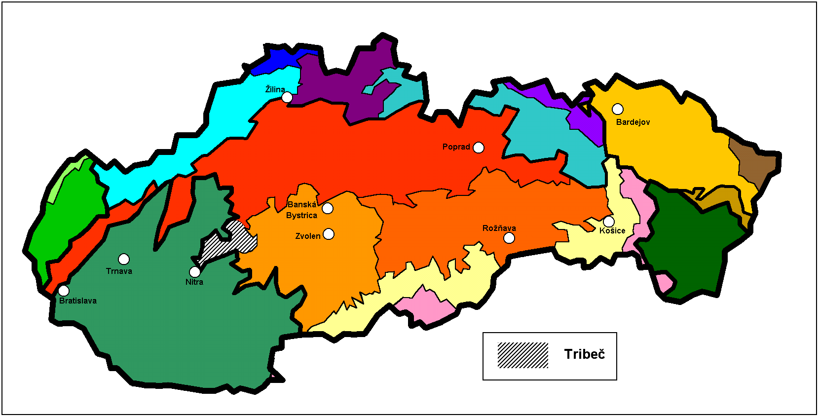 Tribec